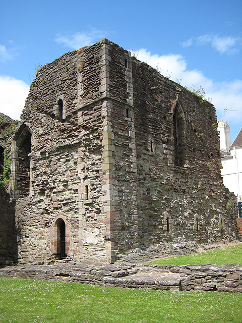 Ruins of the Great Tower, Monmouth Castle. Monmouth Castle is a castle site in the town of Monmouth, county town of Monmouthshire, Wales.